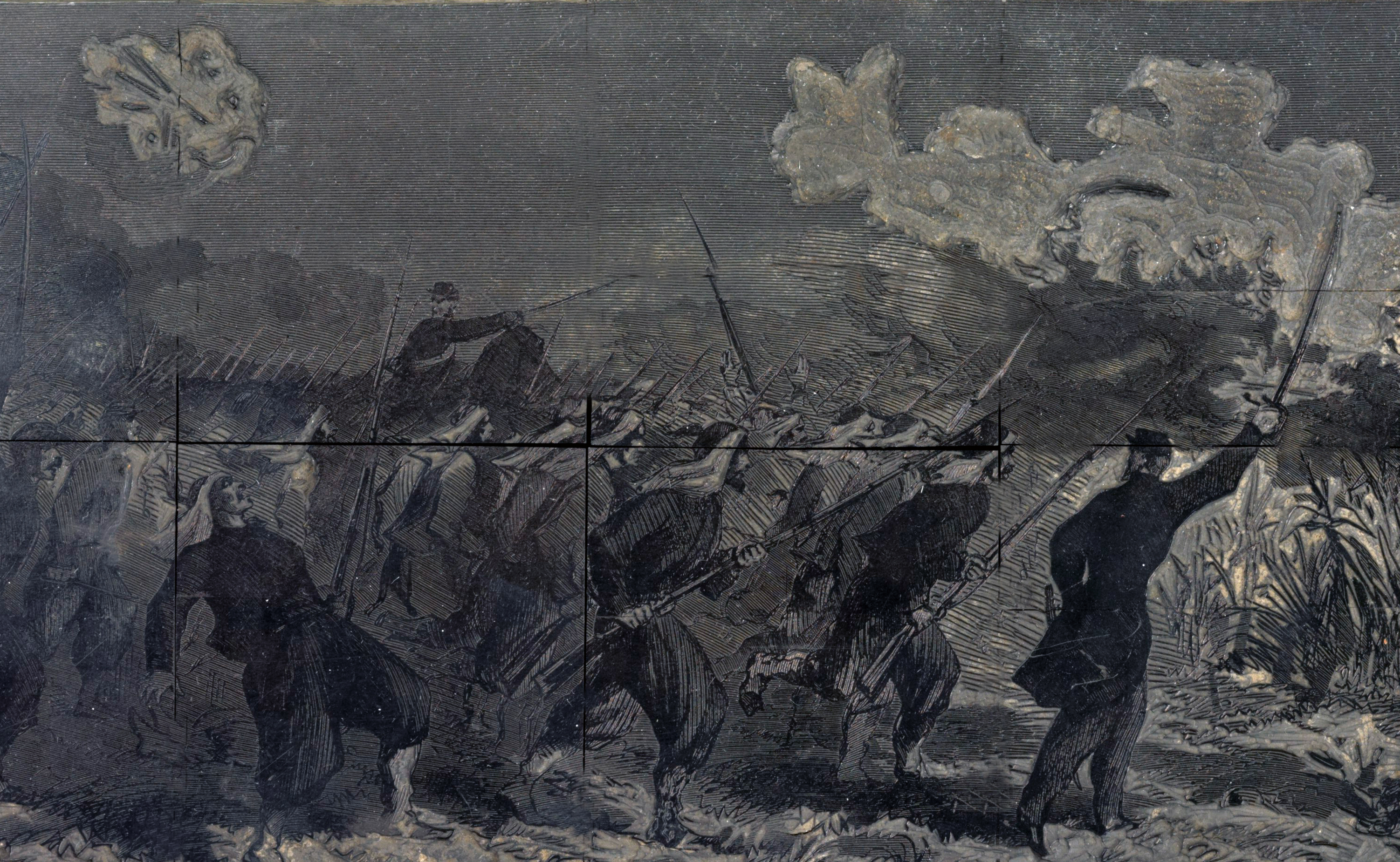 A sketch by Thomas Nast (died 1902) of a charge of the 5th New York Volunteer Infantry at Big Bethel on June 10, 1861.